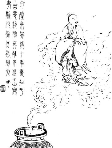 Qing dynasty portrait of Yu Ji/Gan Ji